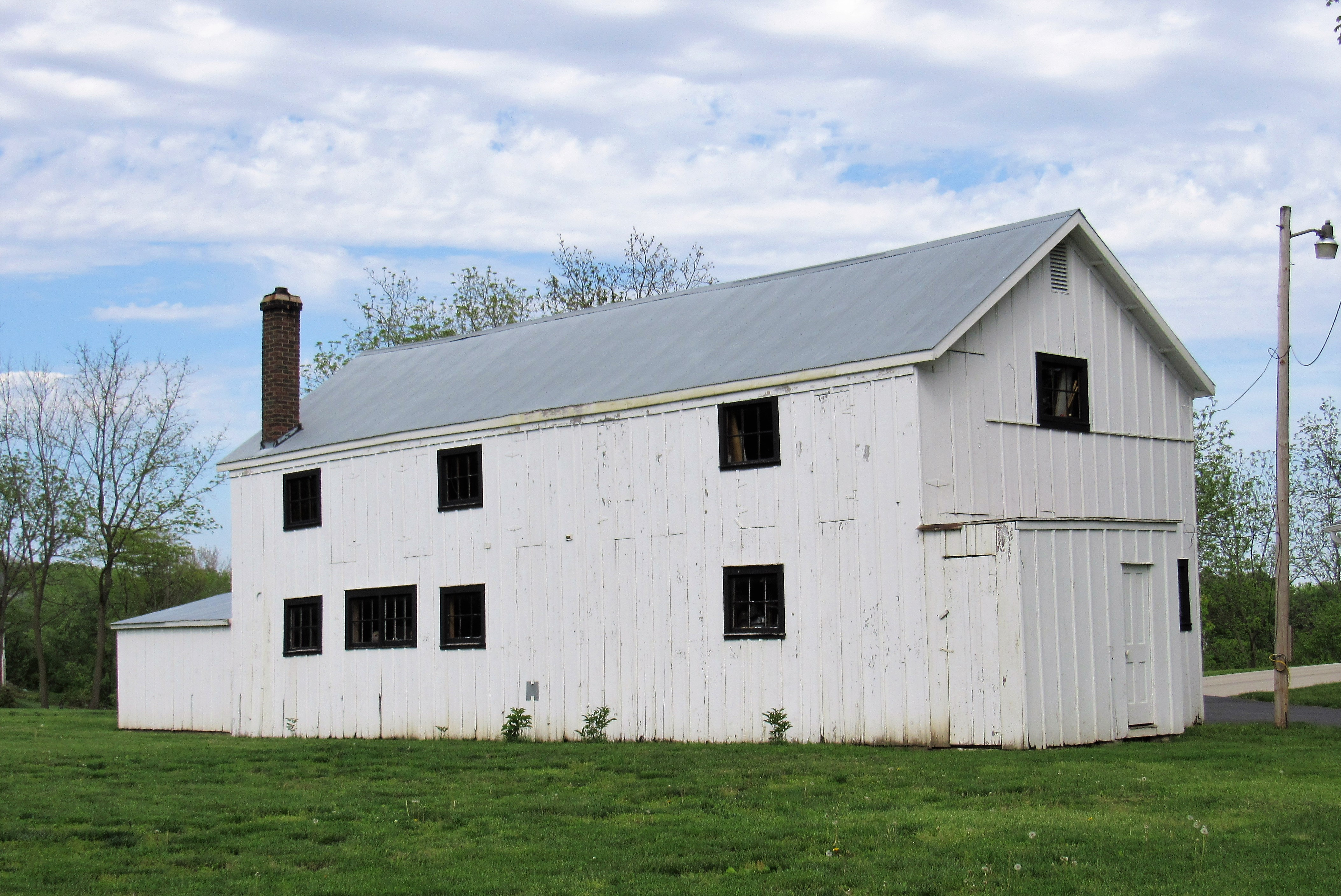 An outbuilding from the Roswell Spencer House. The house no longer stands.